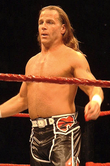 Professional wrestler Shawn Michaels at a WWE house show held at the MEN Arena in Manchester, England.